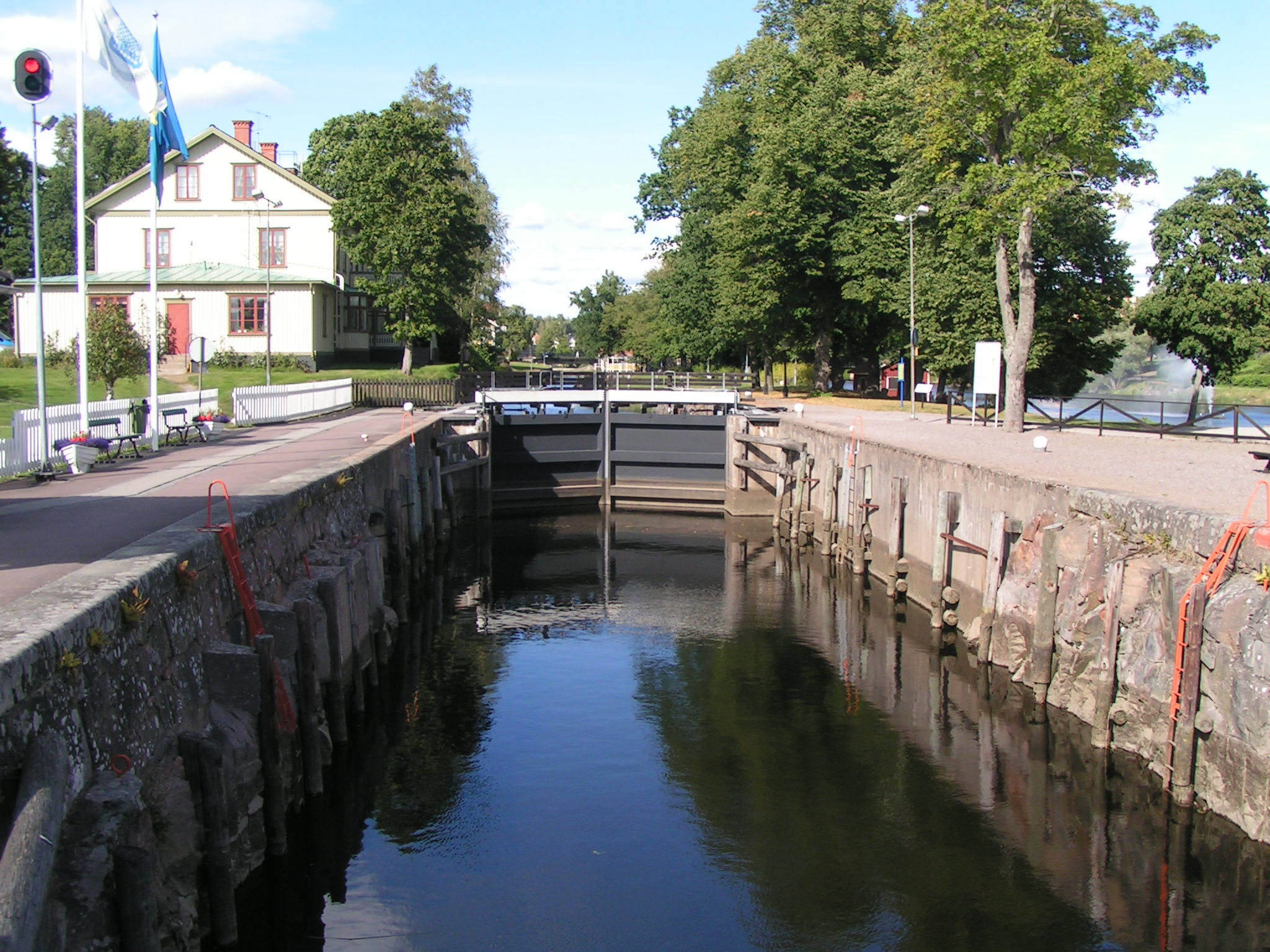 The only lock in Säffle canal, Sweden